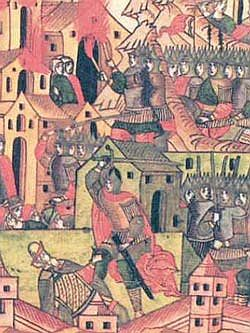 Capture of the Mongol-Tatars Russian city